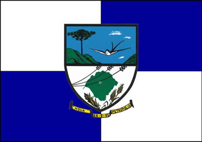 It´s draw of city flag.